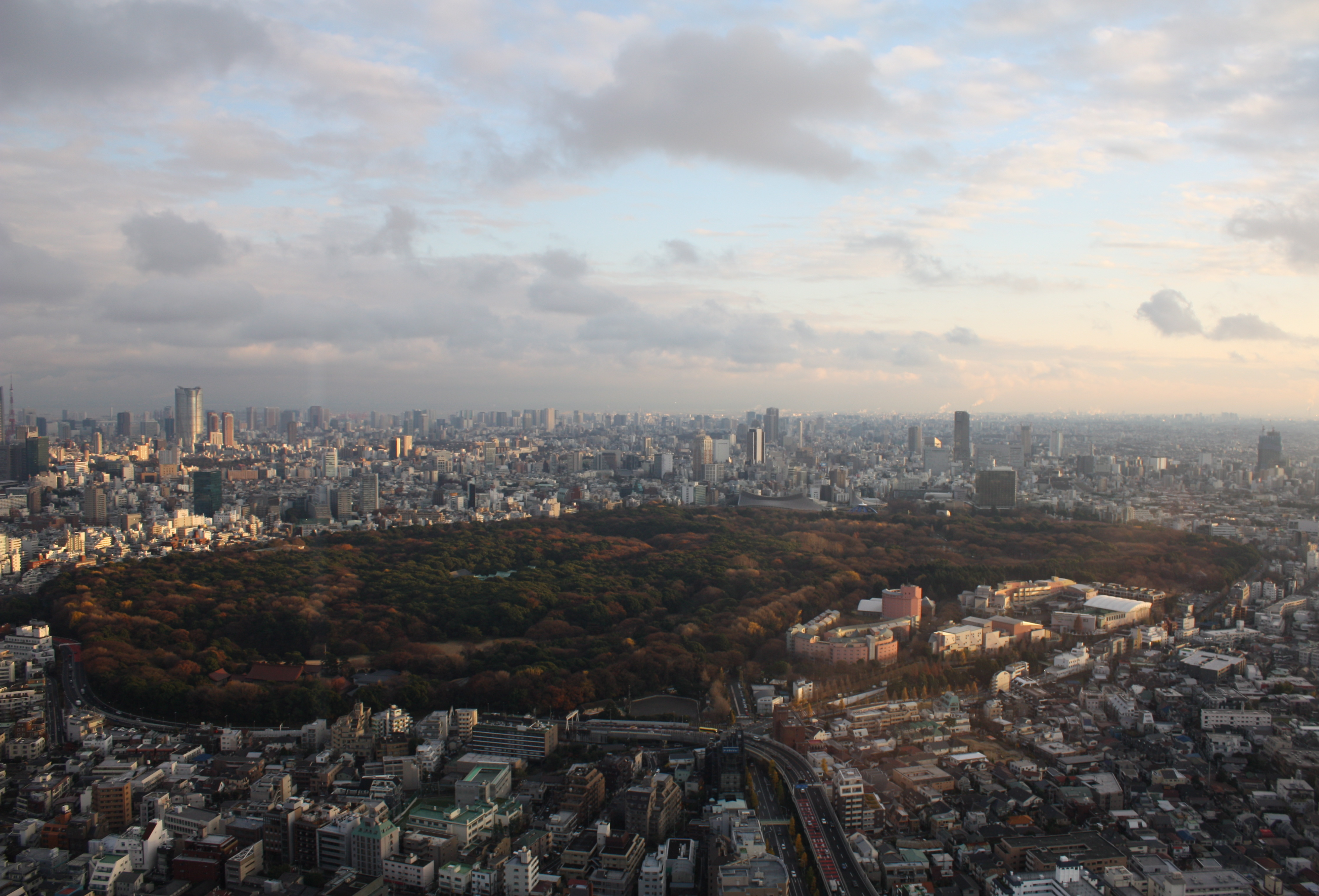 Yoyogi Park and Meiji Shrine as seen from the Park Hyatt Tokyo.